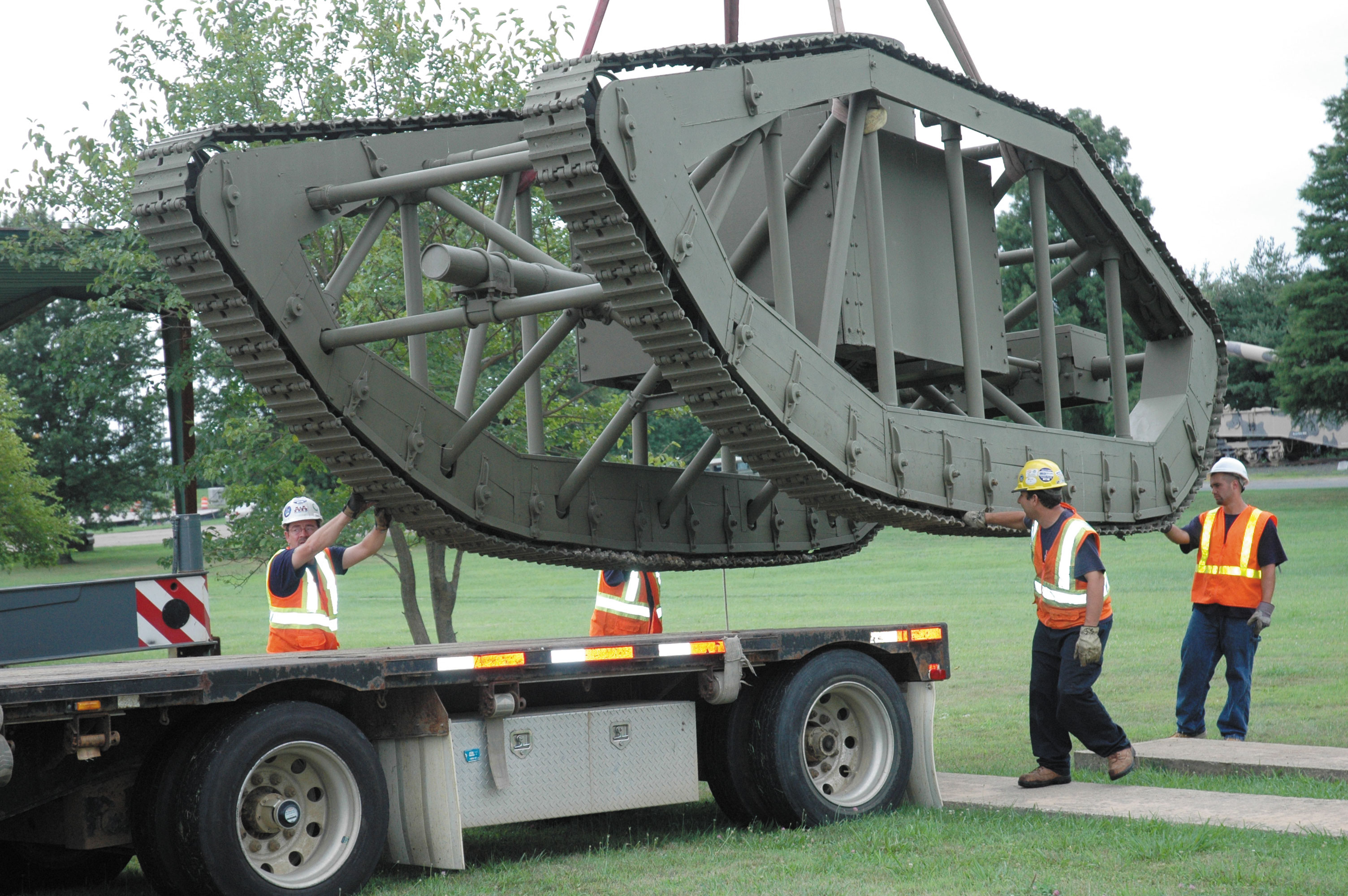 Riggers with A&A Transfer Inc. guide a 1918 full-track Skeleton Tank, the only one in existence, which is being lifted by a 90-ton crane (not shown) onto a trailer on the Ordnance Museum grounds.